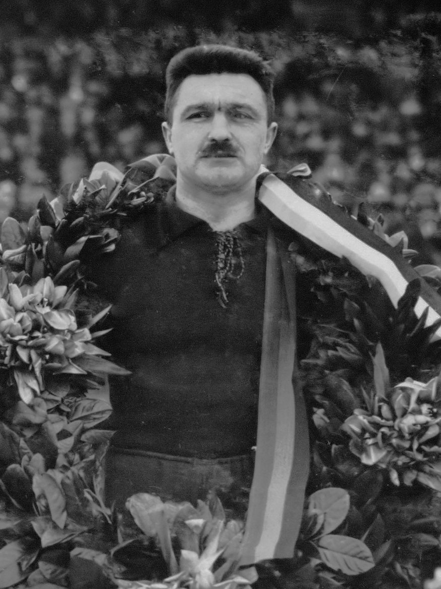 De Belgische aanvoerder Armand Swartenbroeks gehuldigd voor het spelen van zijn vijftigste interland. Nederland - België (1-1), gespeeld op 11 maart 1928 in het Stadion te Amsterdam. 11 maart 1928